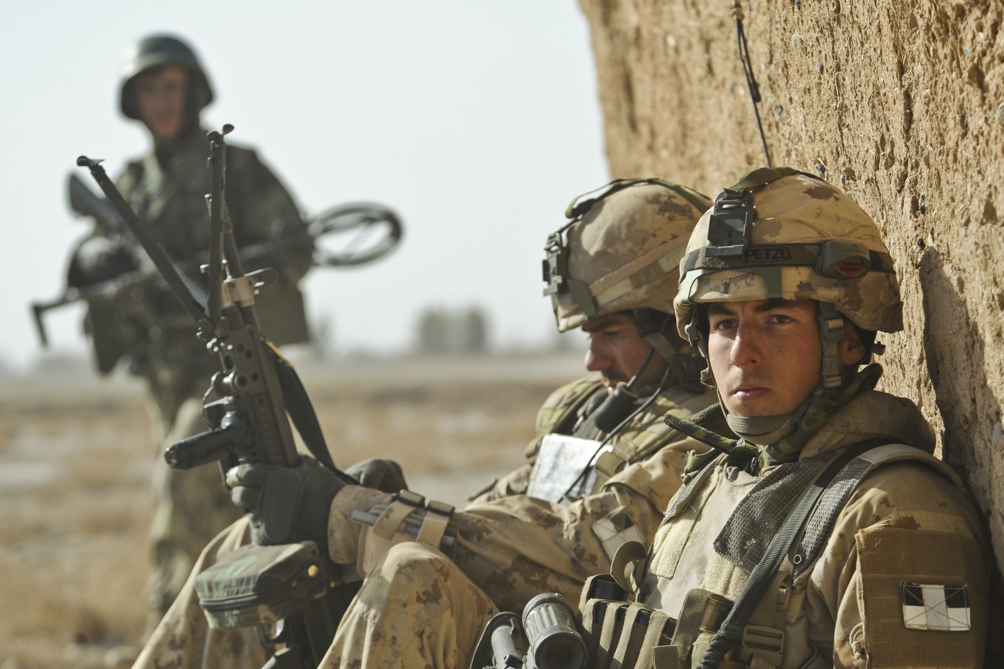 Canadian and Afghan national army soldiers patrol in Badula Qulp, Helmand province, Afghanistan, Feb. 17, 2010. Operation Moshtarak is an Afghan-led initiative to assert government authority in the centre of Helmand province. Afghan and ISAF partners are engaging in this counter- insurgency operation at the request of the Government of the Islamic Republic of Afghanistan and the Helmand provincial government. (U.S. Air Force photo by Tech. Sgt. Efren Lopez)